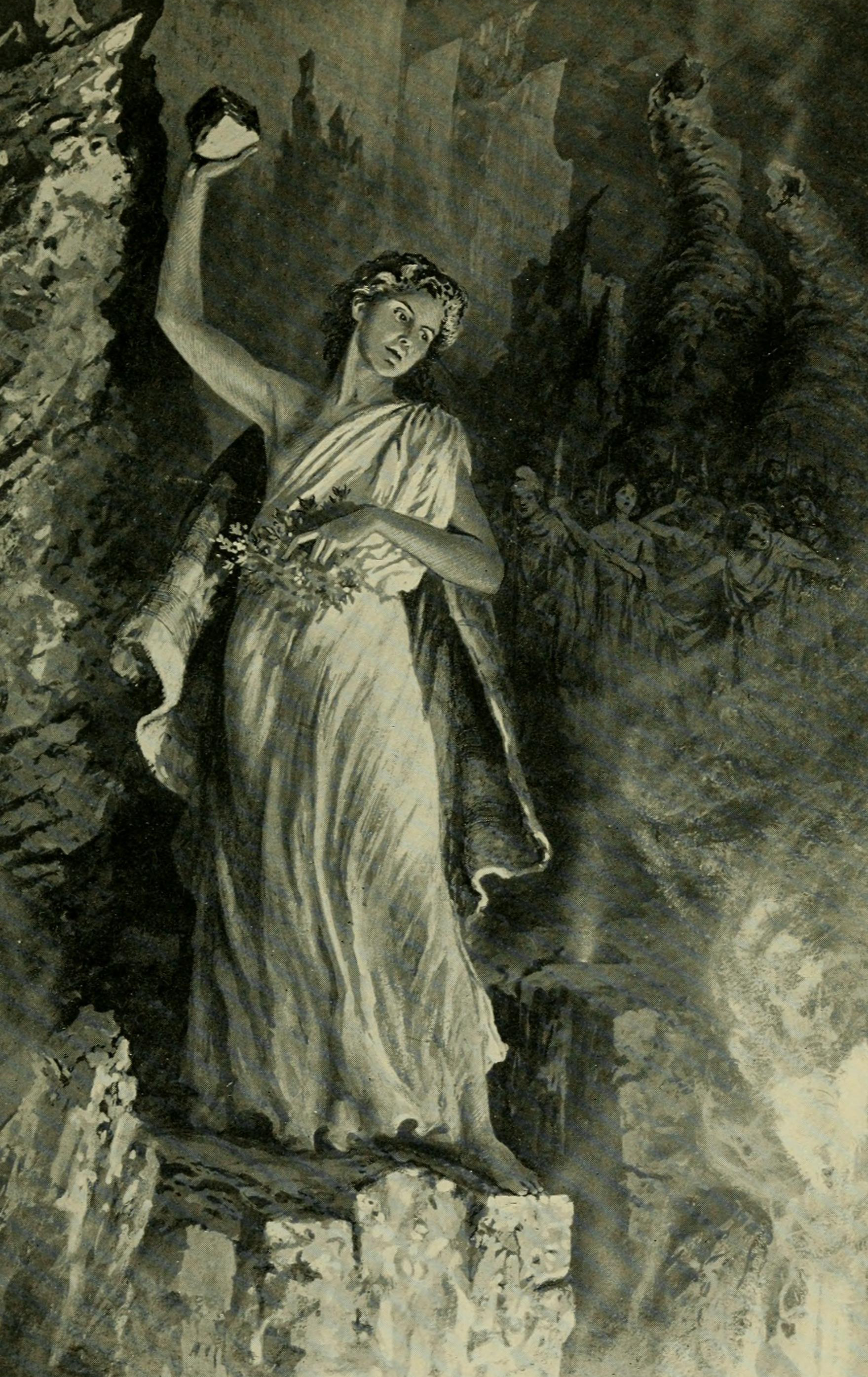 A Caucasianized High Chiefess Kapiolani defying the volcano goddess Pele. Legend of this picture (text removed with the border). Queen Kapiolani defying the Goddess of the vulcano. The natives of Hawaii held the goddess of the volcanic moutain of Pélé in the greatest dread. The Queen, when she became a Christian, saw that the superstition must be broken down. This she achieved by flaunting the authority of the goddess in the volcano itself, and in the presence of her terrified people.